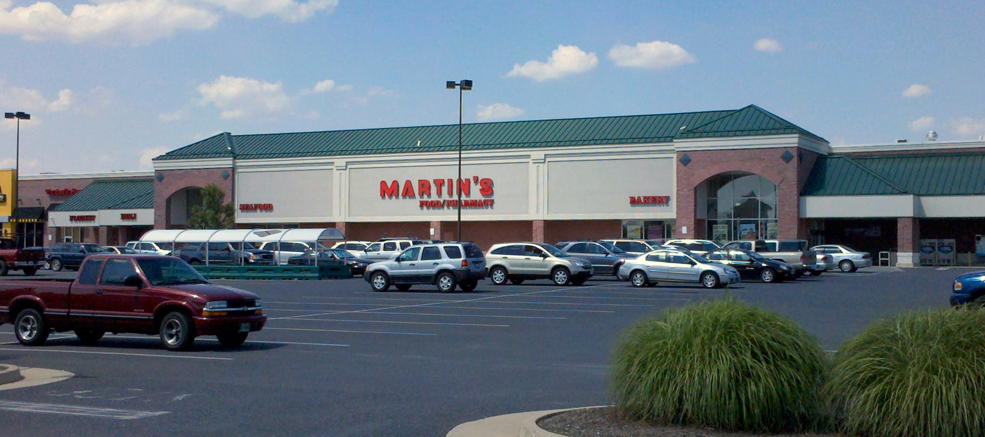 Martin's grocery store in Waynesboro, Virginia.